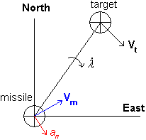 Proportional navigation guidance in missiles enables them to pursue targets, applying a steering correction proportional to the error in heading between the missile and the target.